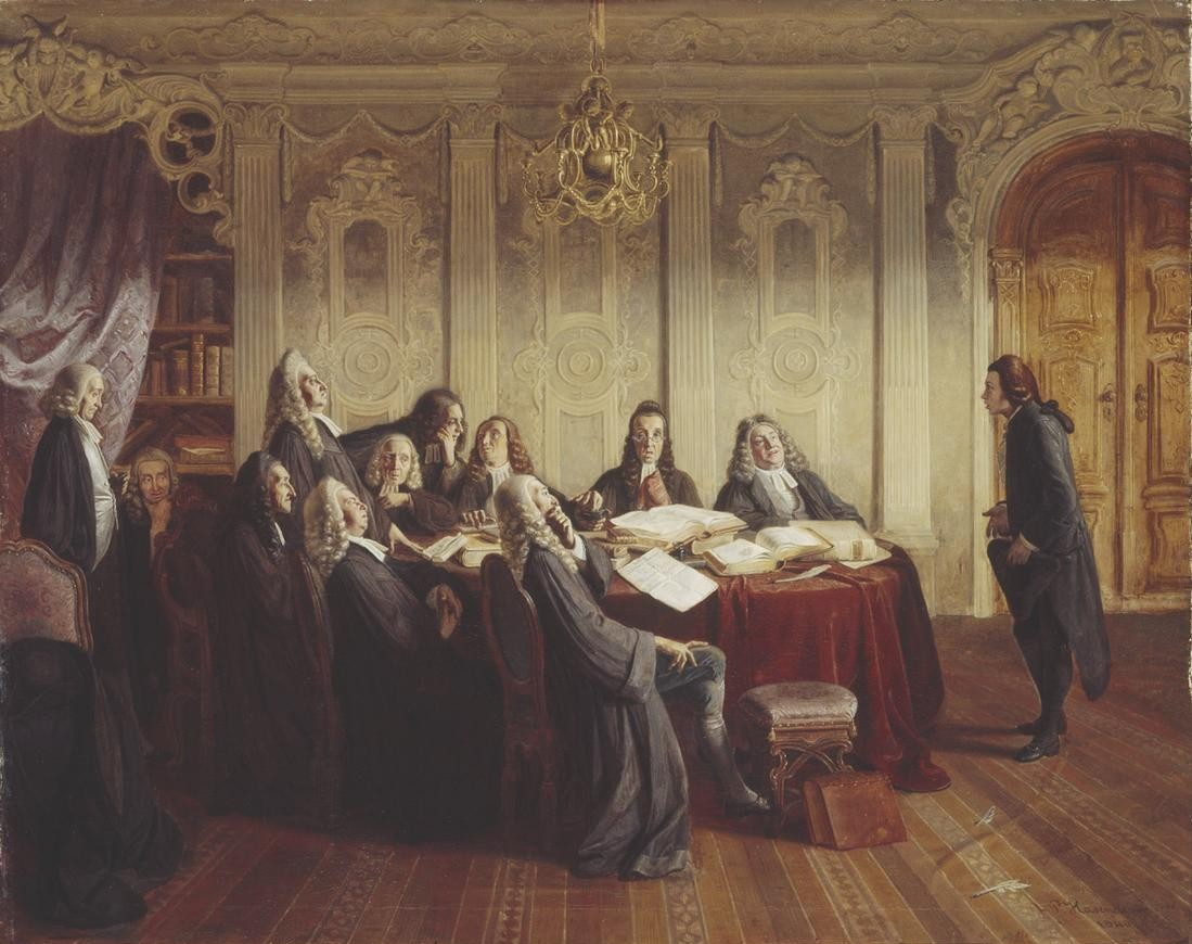 Scene from Carl Arnold Kortum's "Jobsiade": Hieronymus Jobs before the Board of Examiners